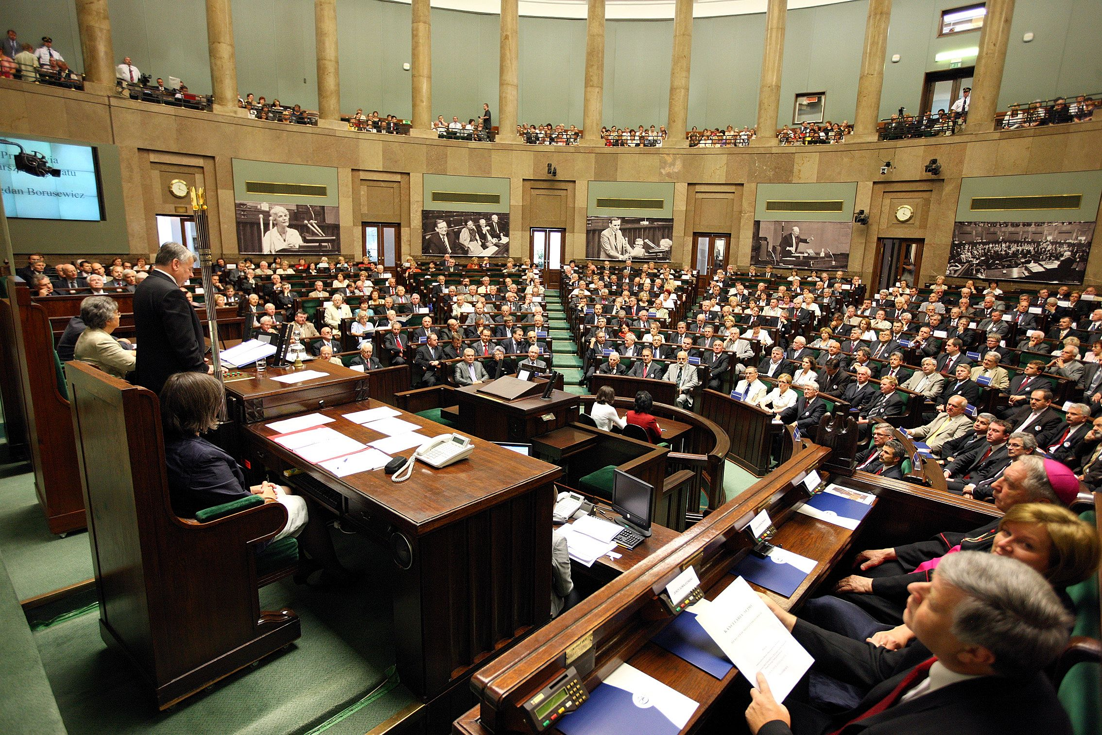 20th anniversary of re-establishment of the Polish Senate